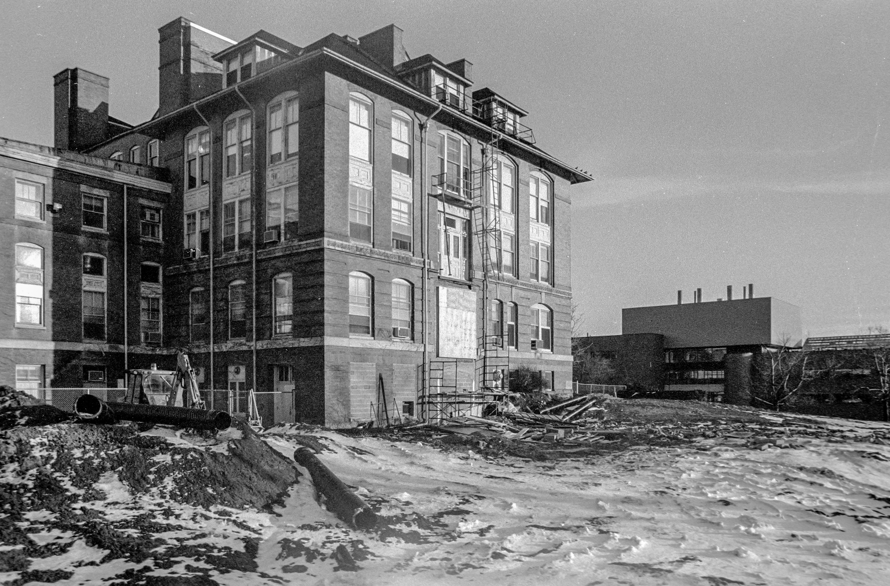 West side of Roberts Hall, showing the space where Stone Hall used to be. Stone was connected to Roberts. The relatively new Corson Hall (1981) is in the distance. Photo taken ca 1987 or 1988.